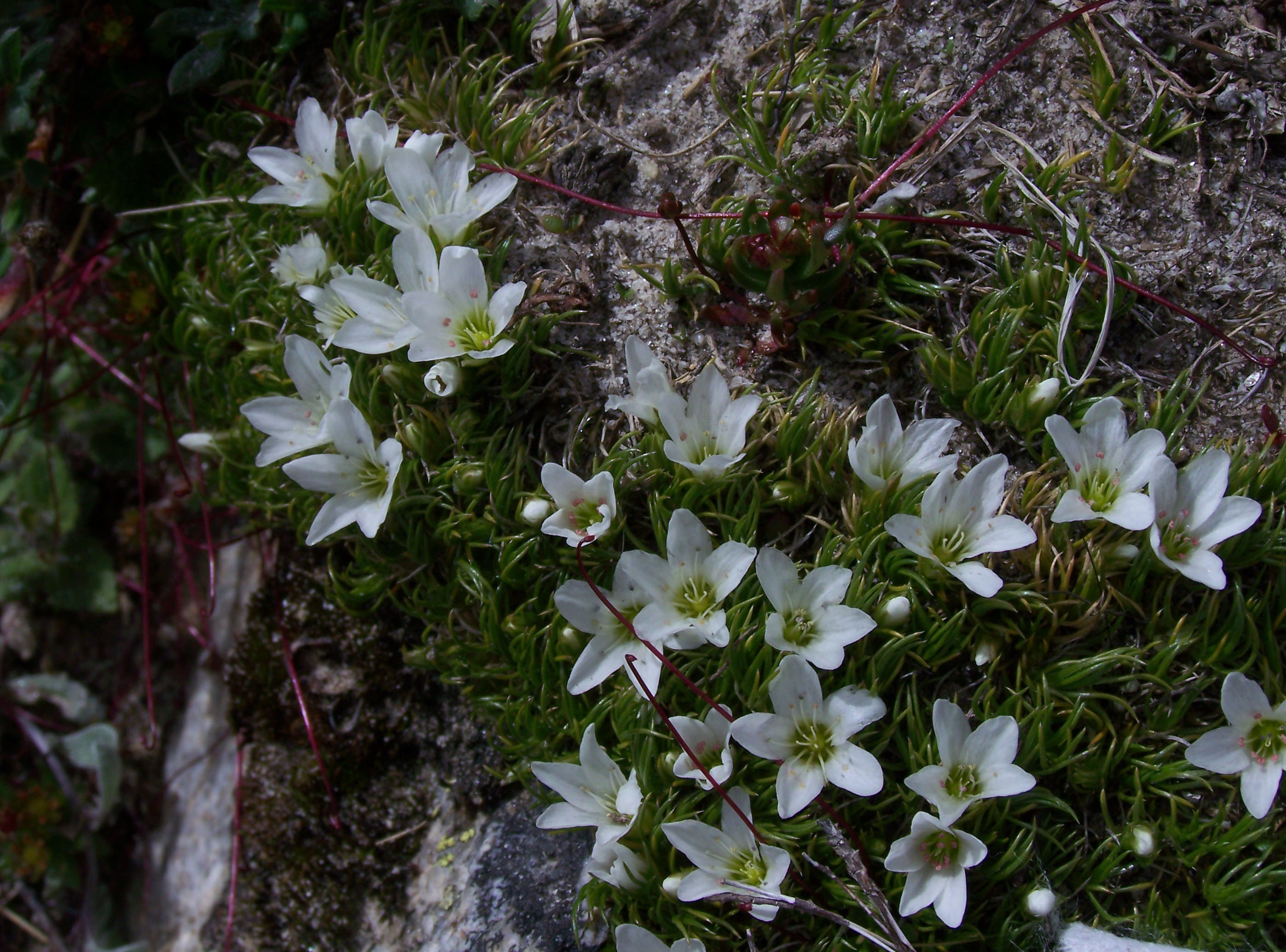 See User:Woudloper/Himalayan flora. Arenaria bryophylla (Flycatcher Sandwort). July, 5200 m, near Gorak Shep, Khumbu region, Nepal.